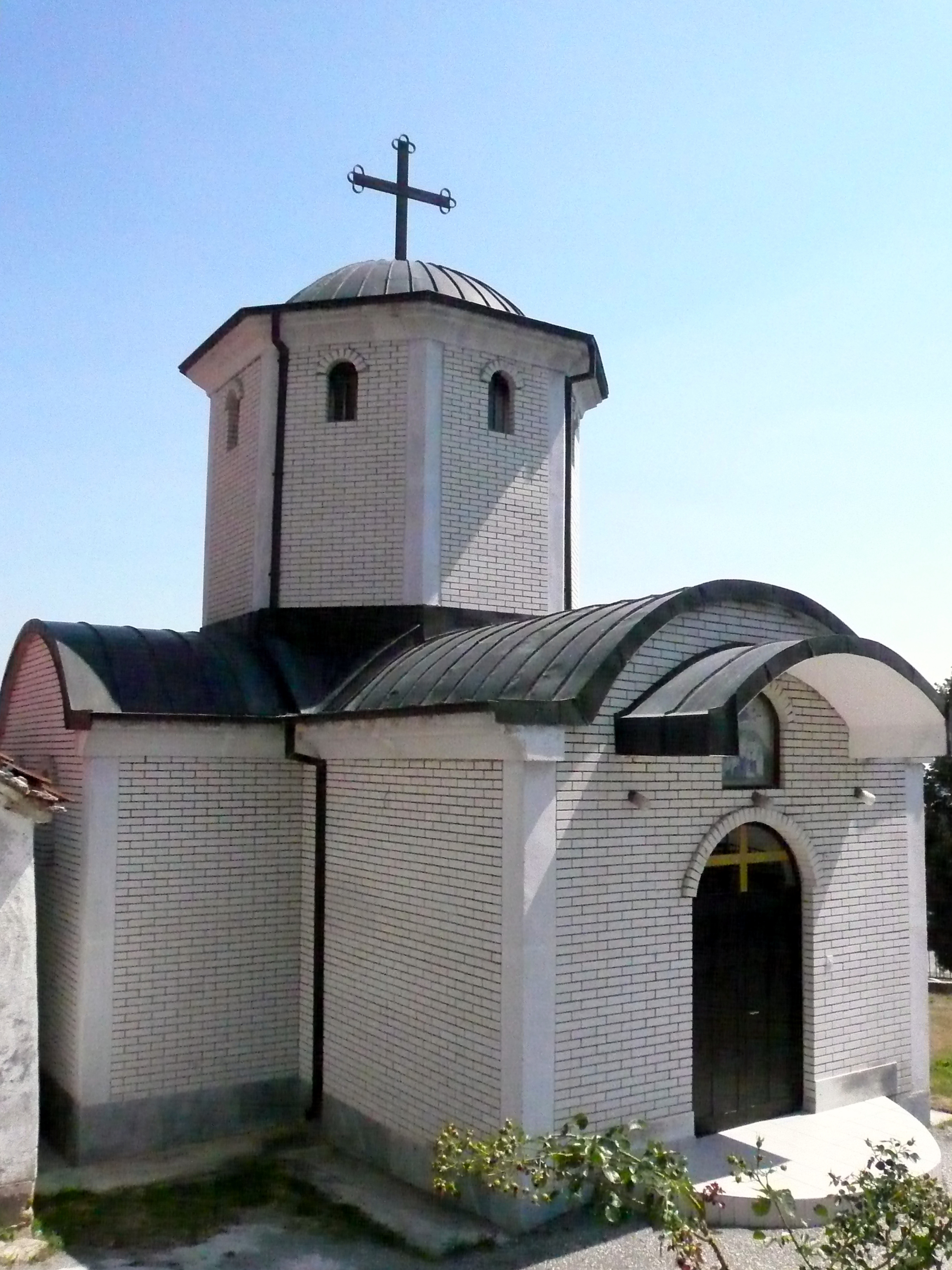 New church of Holy Salvation in Rogačevo, Jegunovce Municipality (Tetovo region), Macedonia.